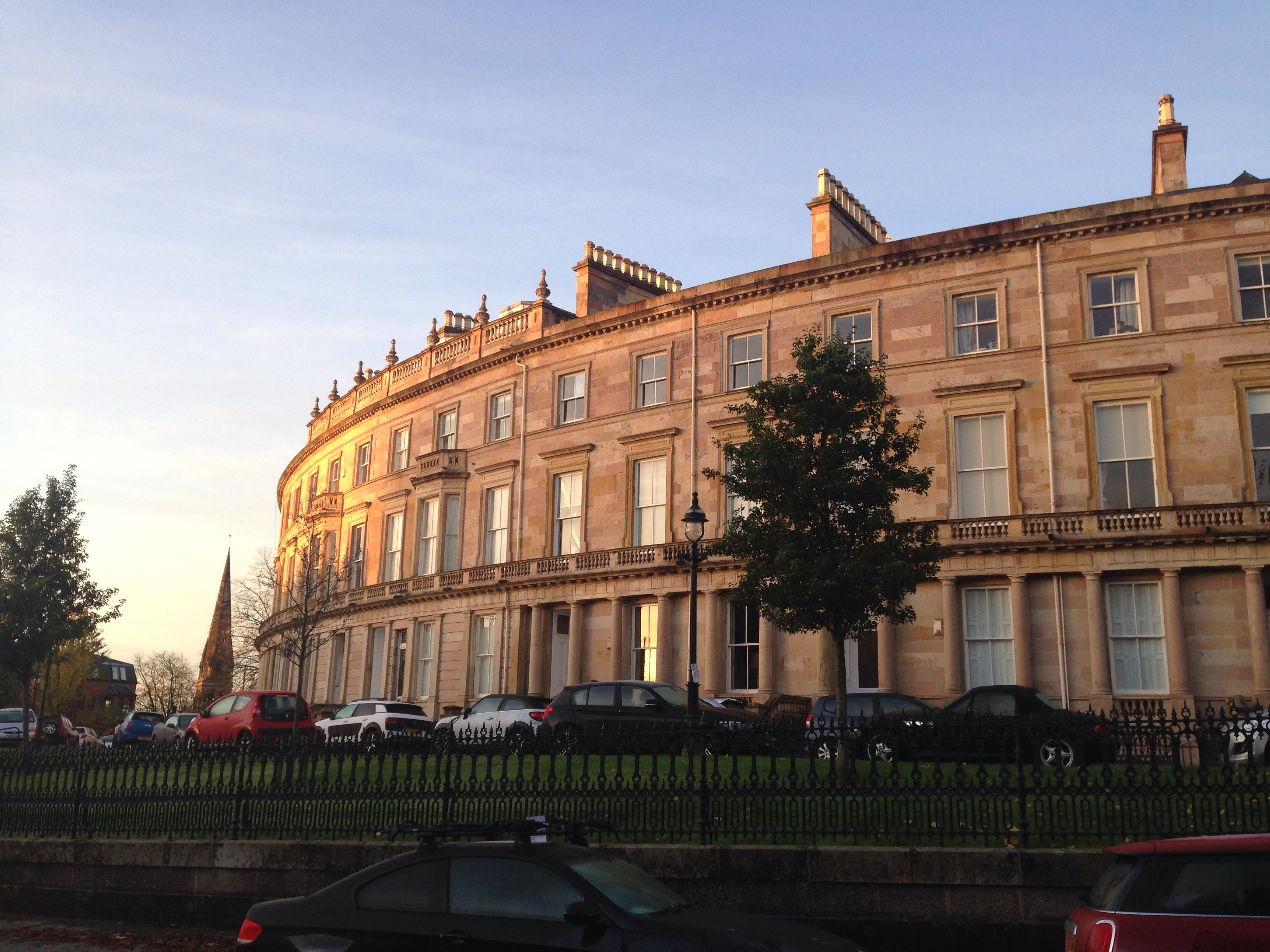 Category A listed Crown Crescent in Glasgow